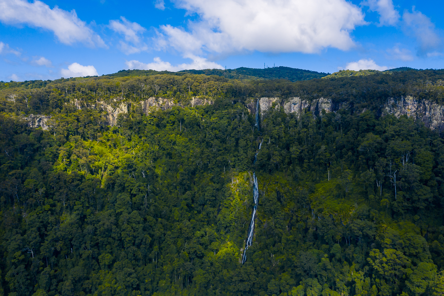 Located in the heart of Springbrook, the Twin Falls circuit is an iconic attraction that lures many to see it.